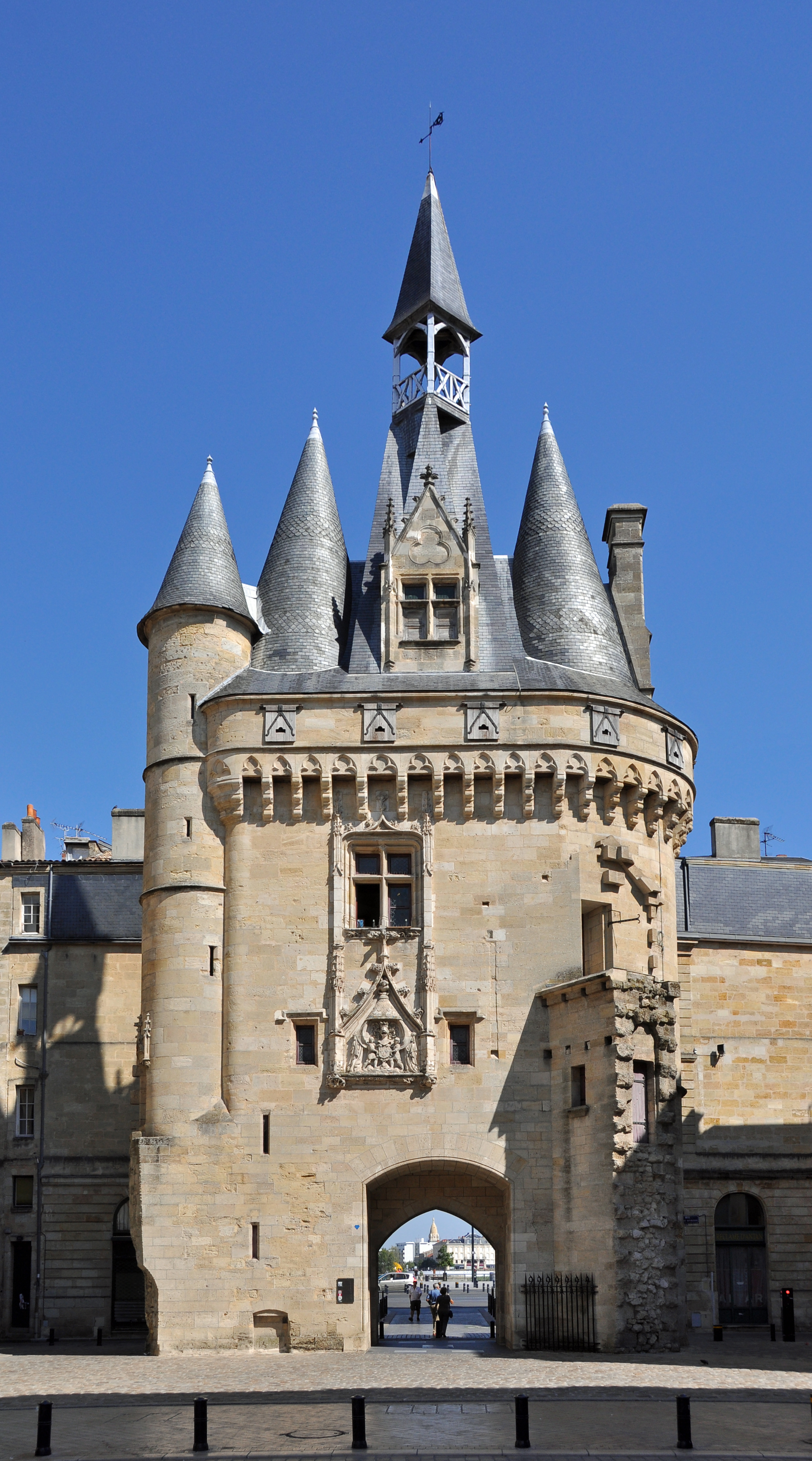 Bordeaux (France): Cailhau Gate, western side